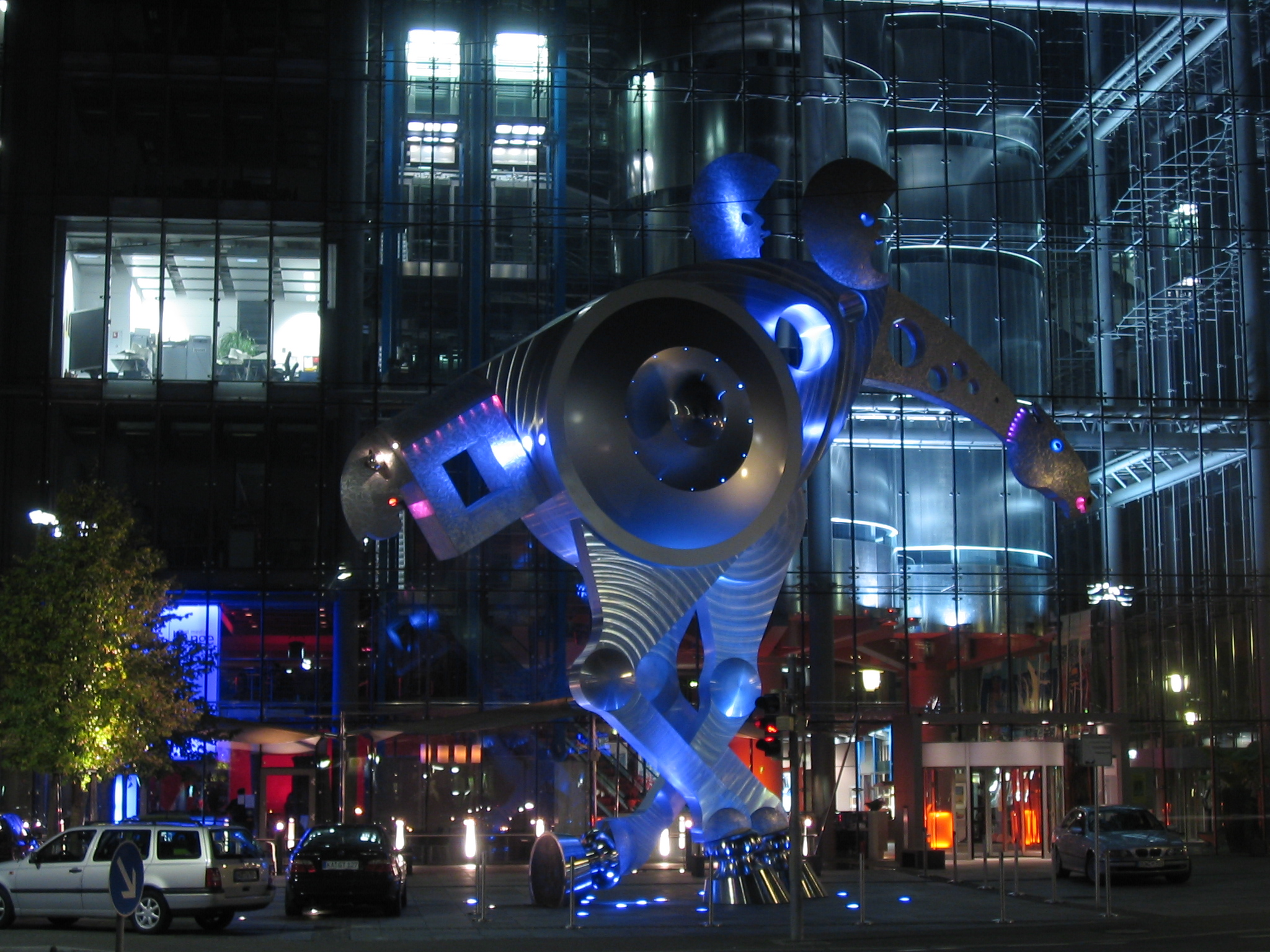 "S-Printing Horse" in front of PrintMedia-Akademie in Heidelberg - No. 001